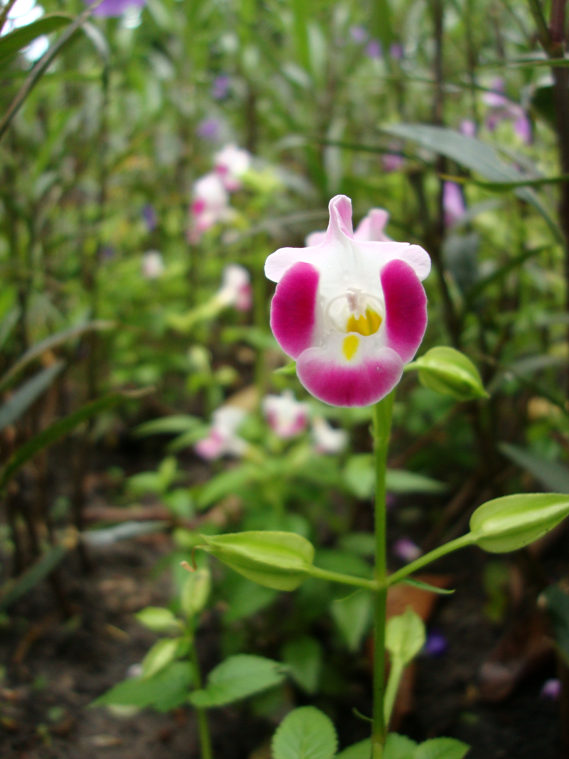 Torenia fournieri Linden ex E. Fourn., 1876